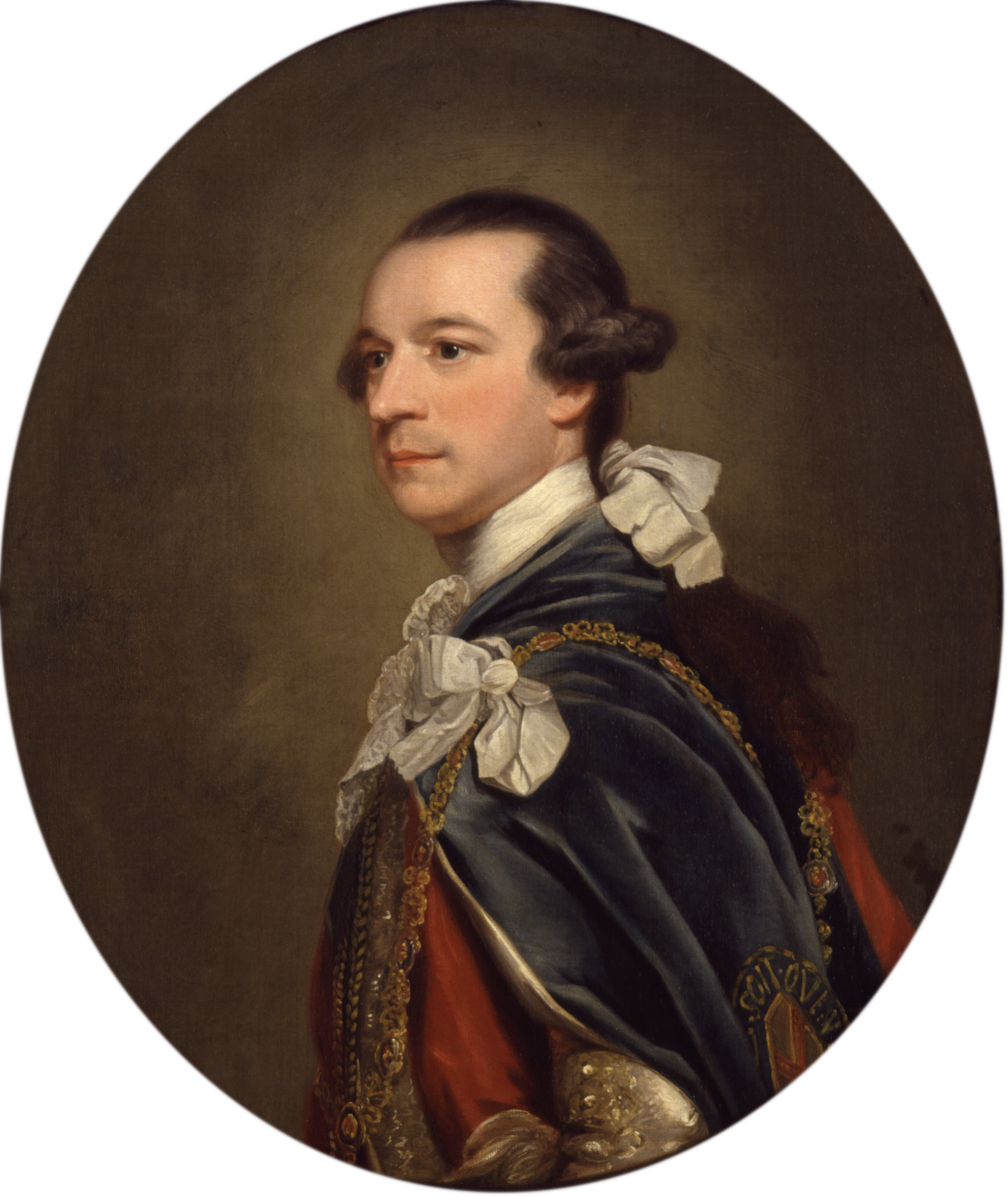 Portrait of Charles Watson-Wentworth (1730–1782)